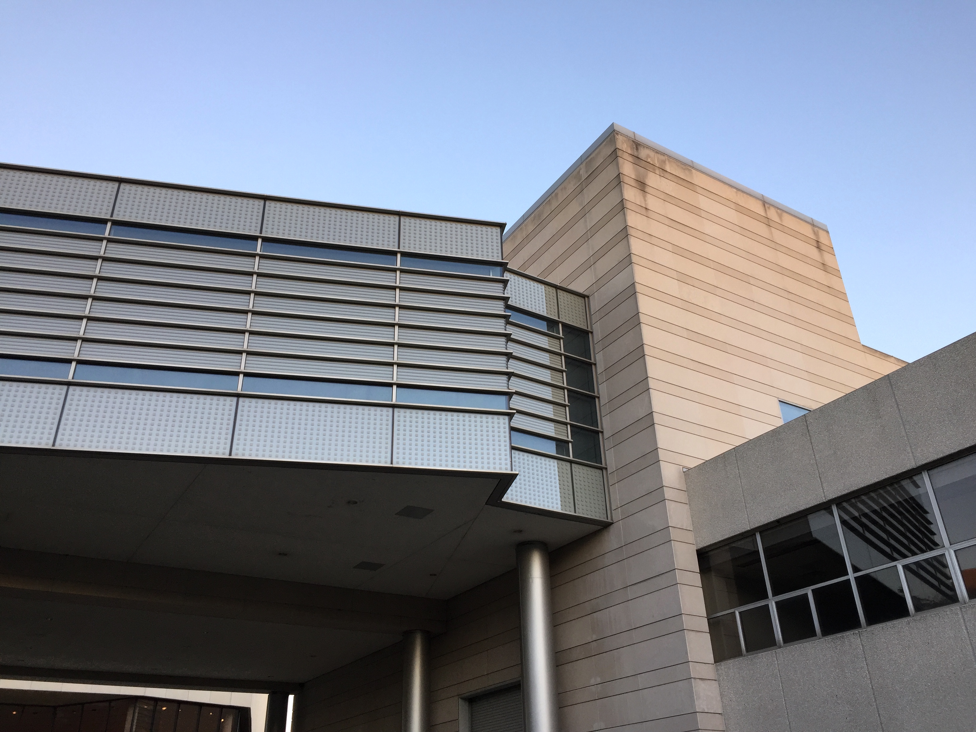 The Virginia Wadsworth Wirtz Center for the Performing Arts, Northwestern University